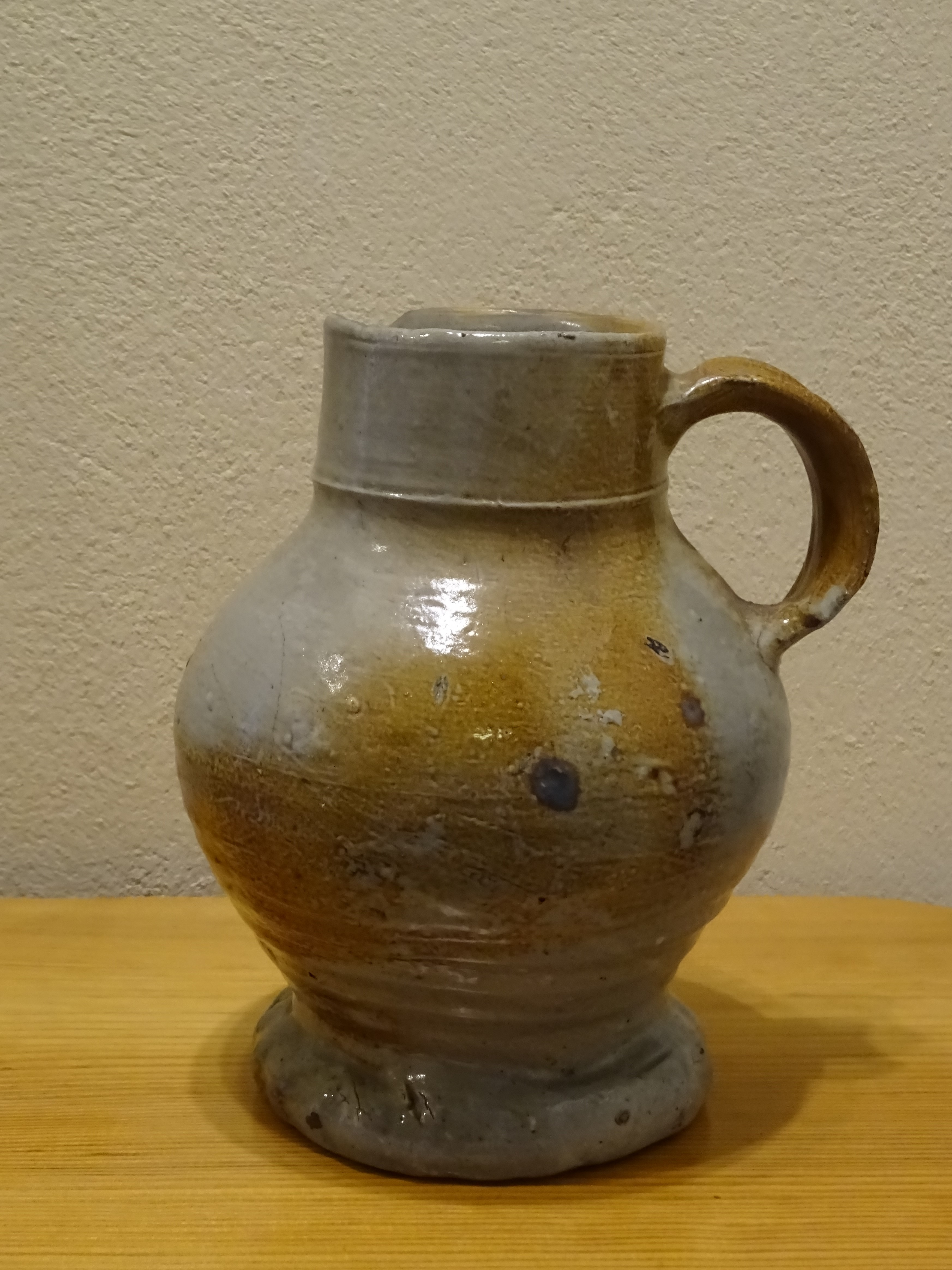 Jug from Raeren, Belgium